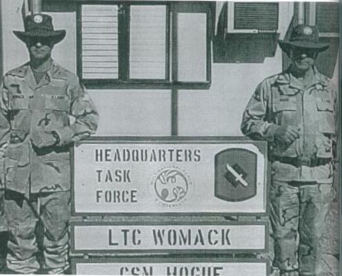 LTC Steve Womack and CSM Bill Hogue in front of their Task Force Headquarters, during the MFO mission to Egypt